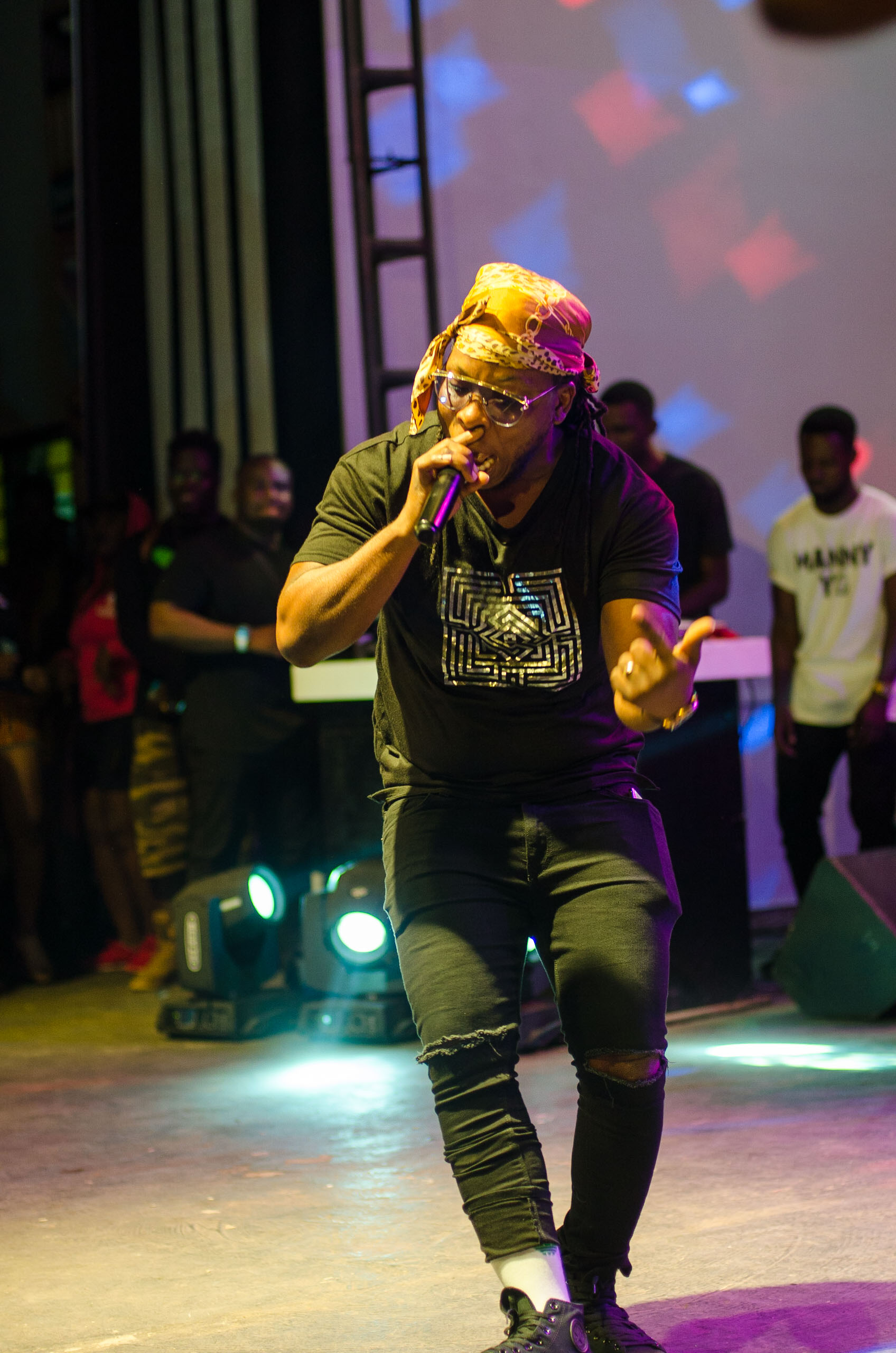 Edem is a Ghanaian rapper and this photo during one of his performances.